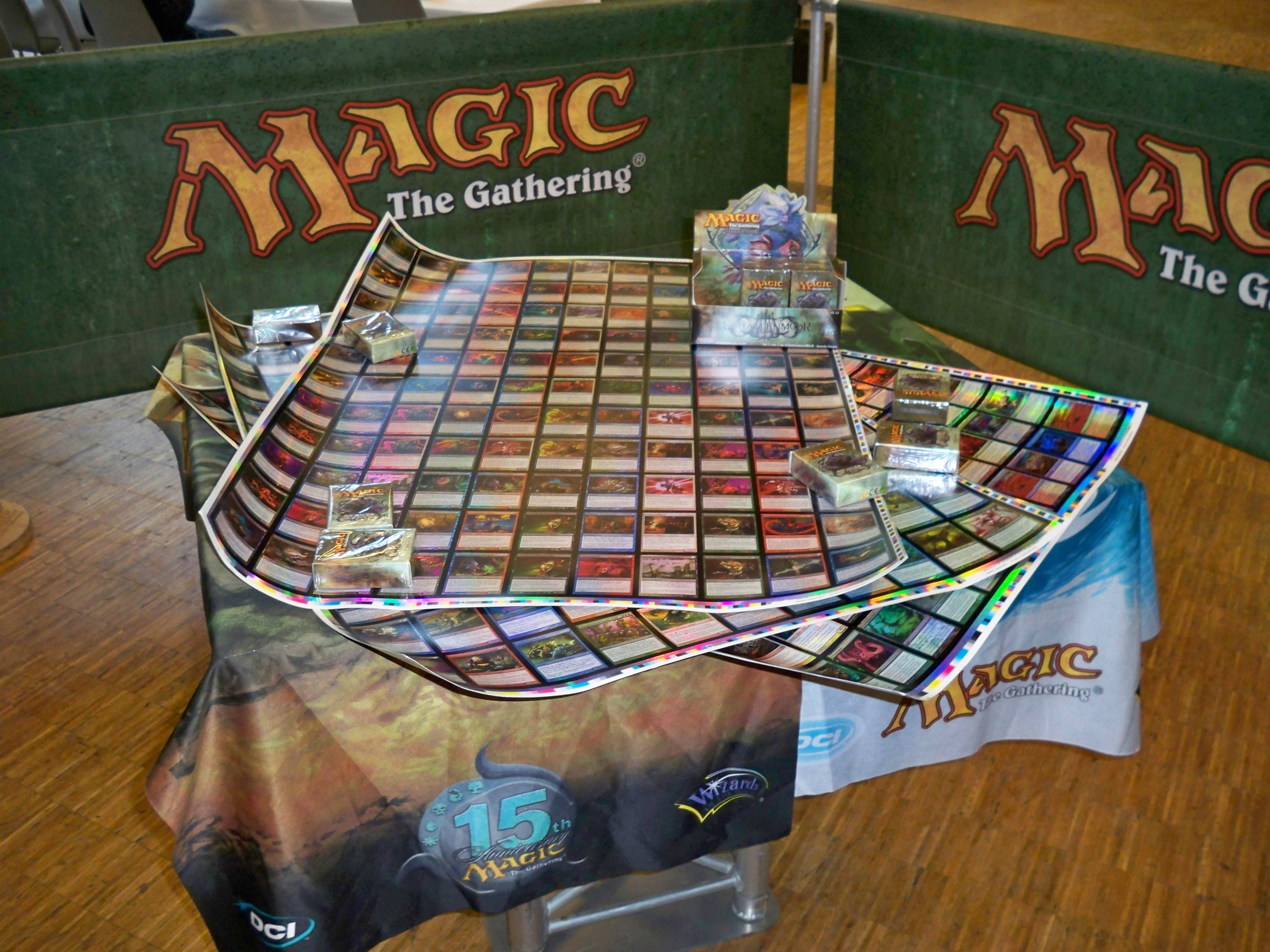 German foil common, uncommon, and rare print sheets of the Magic: The Gathering "Eventide" edition. These print sheets were given out as prizes at the 2008 German National Championships.